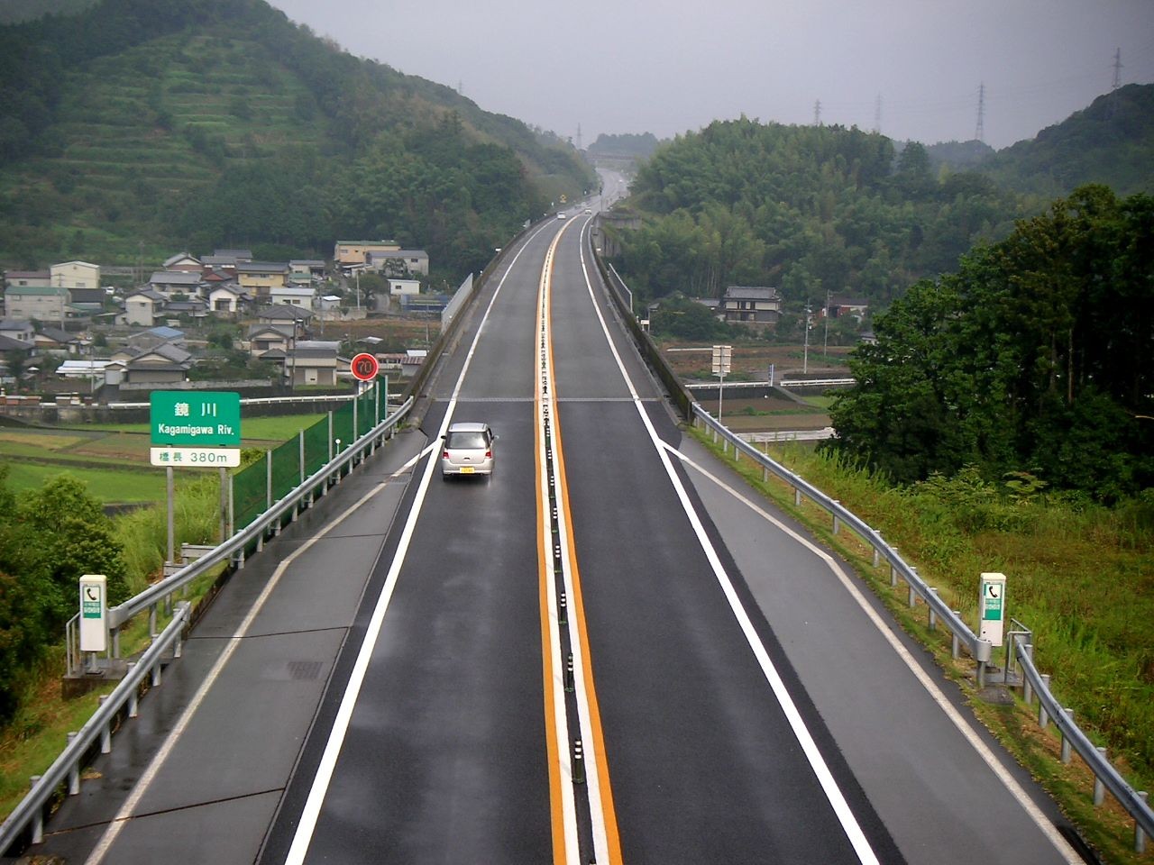 Kochi Expressway Kagami river bridge, Japan